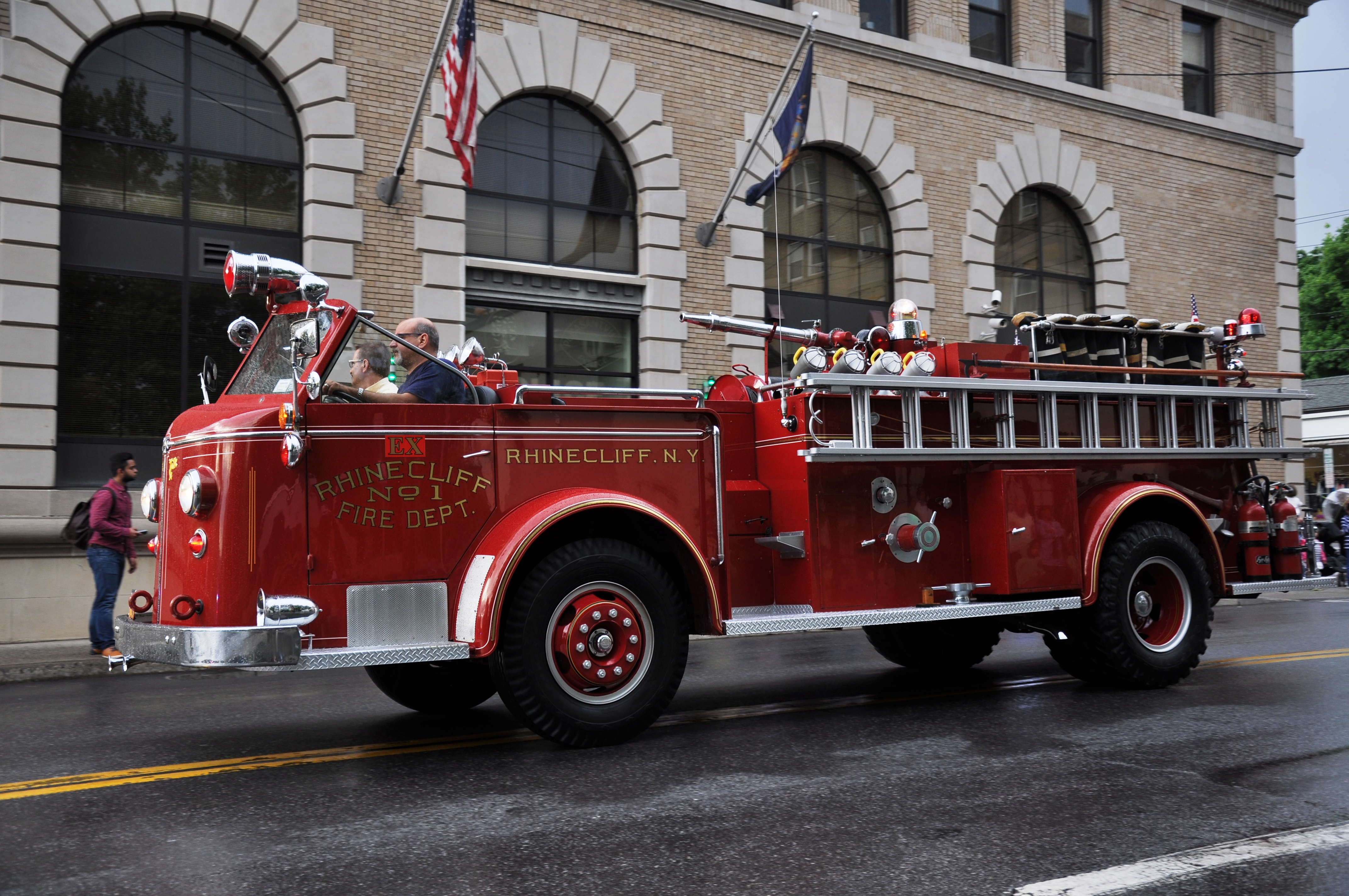 Rhinecliff NY fire vehicle. I took this at the Pleasantville Firefighters' Parade on May 30, 2014.